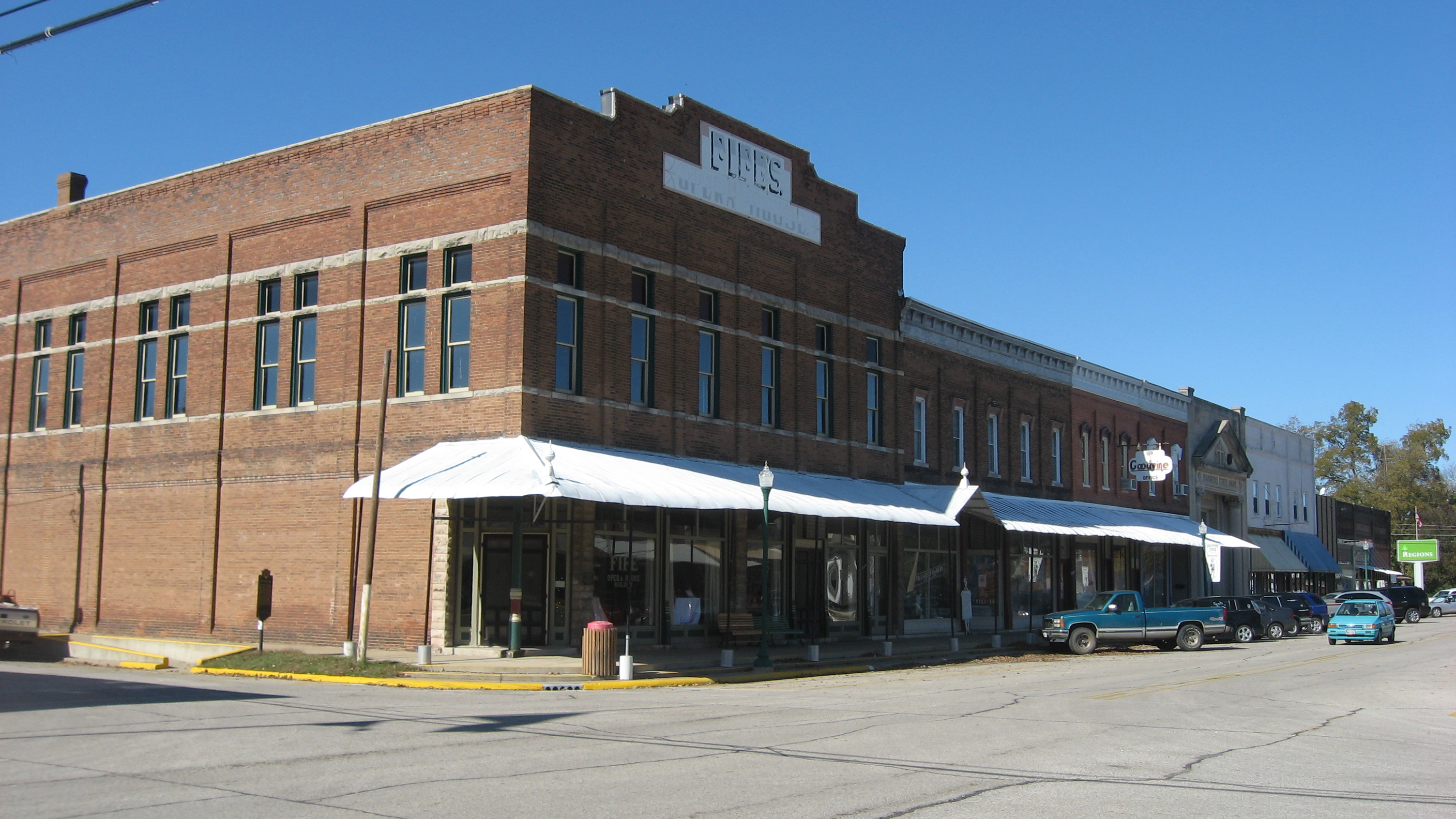 Buildings on the western side of the 100 block of S. Main Street in Palestine, Illinois, United States. This block is part of the Palestine Commercial Historic District, a historic district that is listed on the National Register of Historic Places. The southernmost building in this photo (on the left edge) is the Fife Opera House; built in 1901, it is separately listed on the Register.